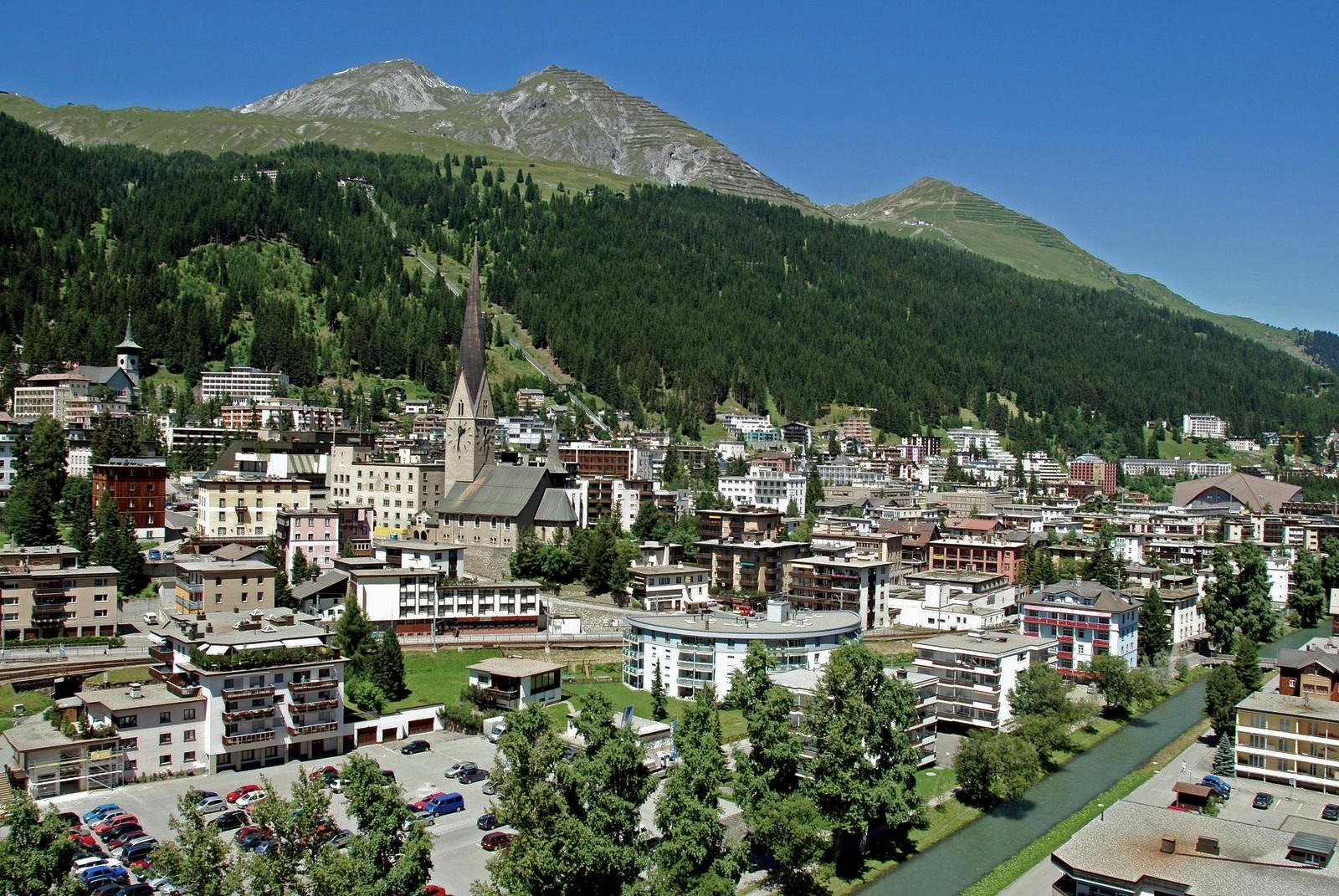 Davos, Graubünden